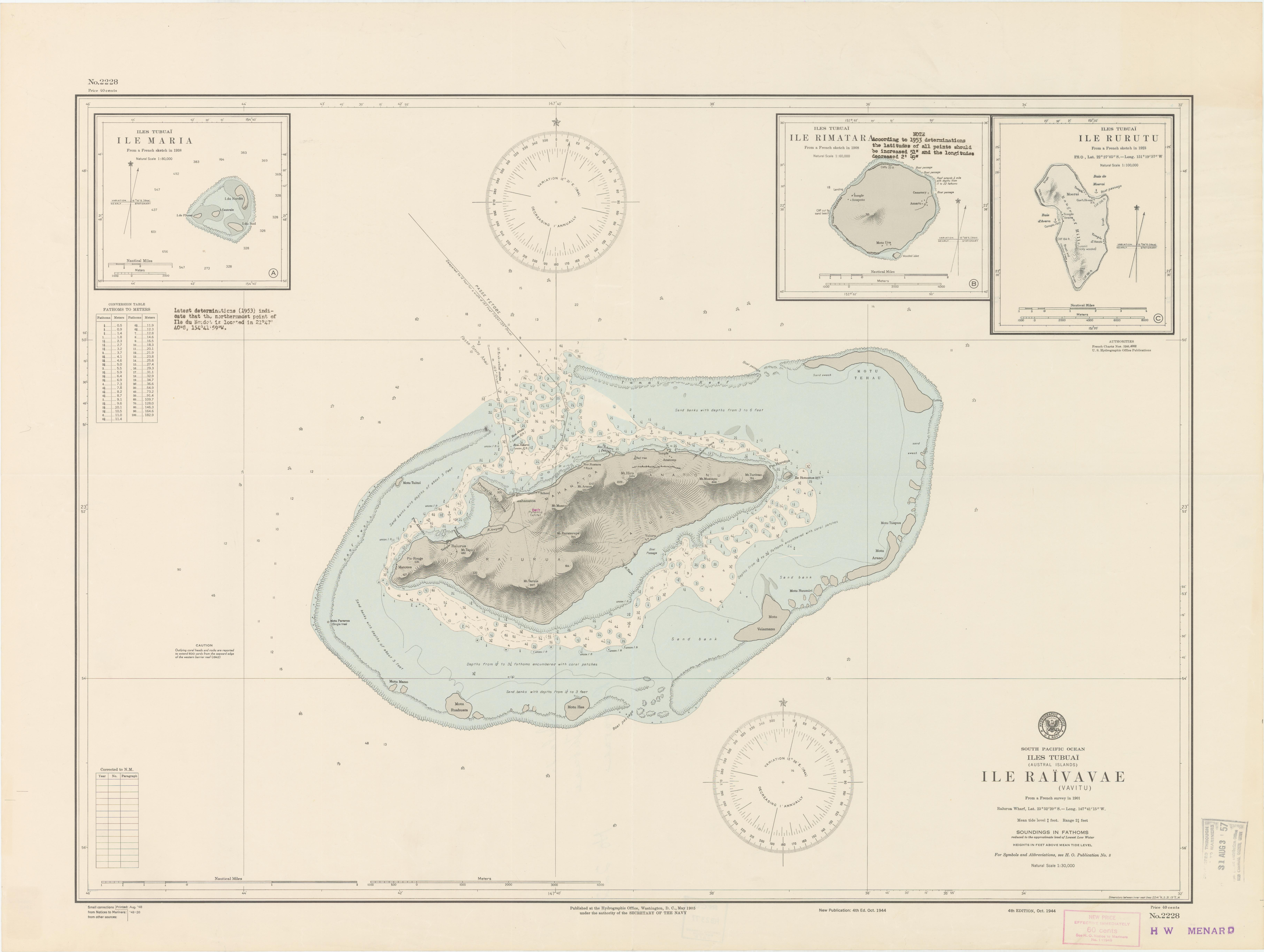 nautical chart of Raivavae, with insets of Ilôts Maria (Hull), Rimatara, Rurutu, Austral Islands, French Polynesia, South Pacific Ocean